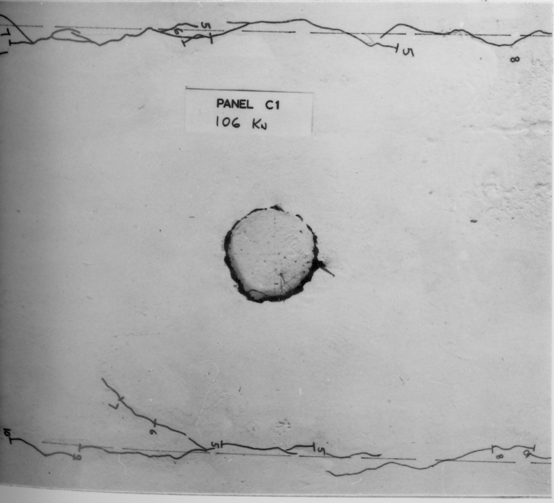 Top surface crack pattern of punching failure zone in model bridge deck test;Other information: this photograph has not previously been published